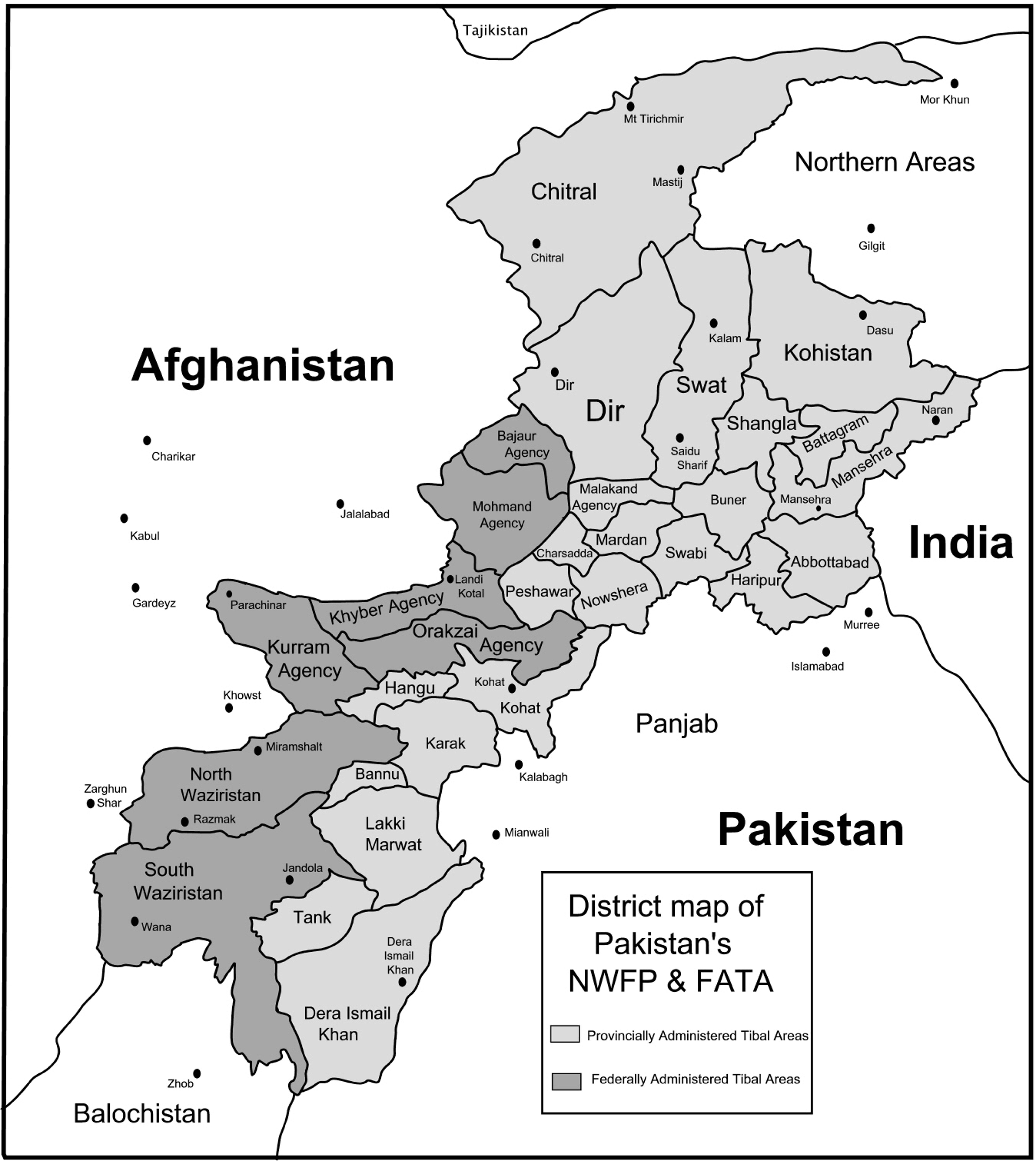 Map of Pakistan's North-West Frontier Province and Federally Administered Tribal Areas.